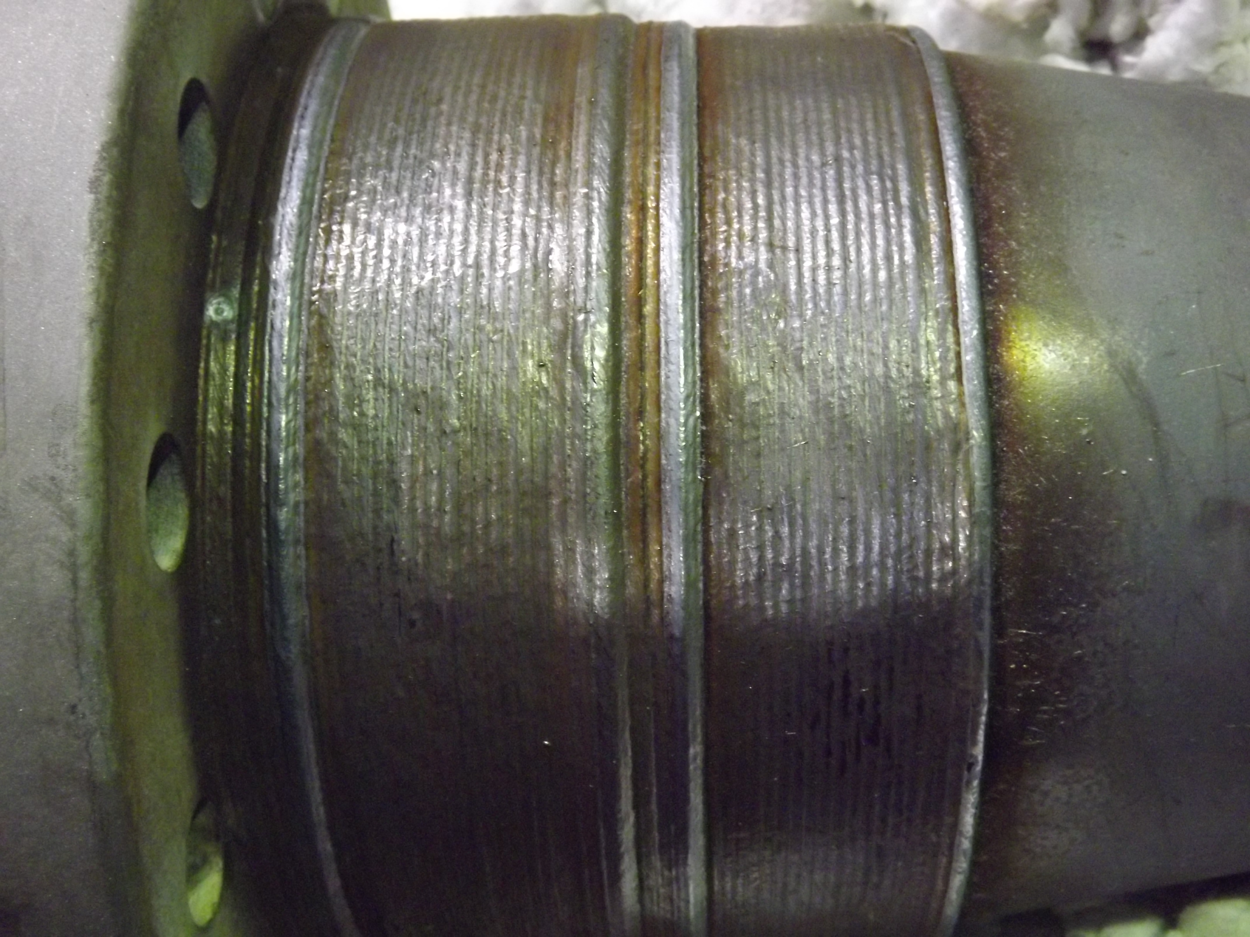 Close up of SpiralWeld® Overlaying